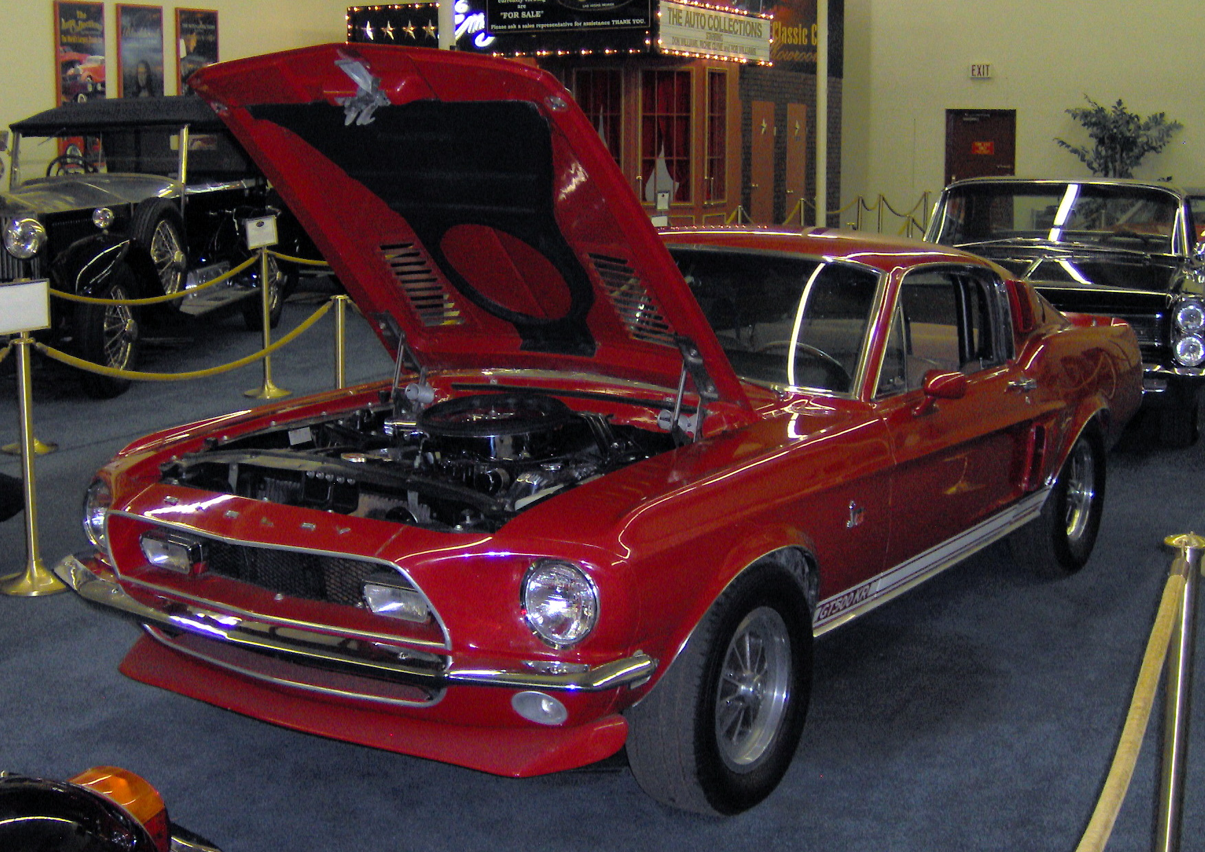 1968 Shelby Mustang GT500 KR Fastback